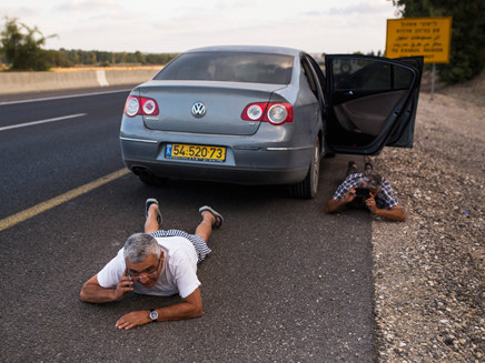 Israeli drivers take refuge from rockets in Gaza envelope. 16/7/2014